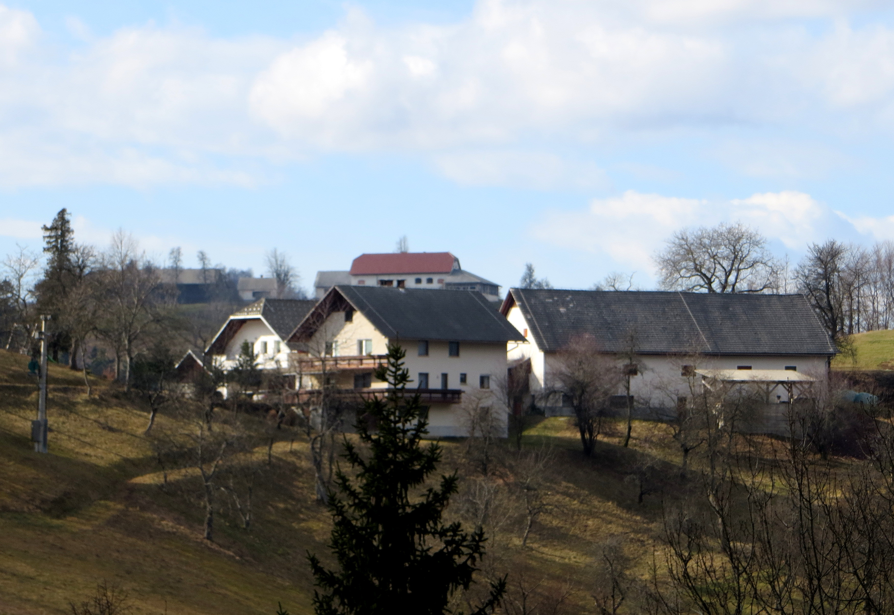 The hamlet of Jekopec in Valterski Vrh, Municipality of Škofja Loka, Slovenia